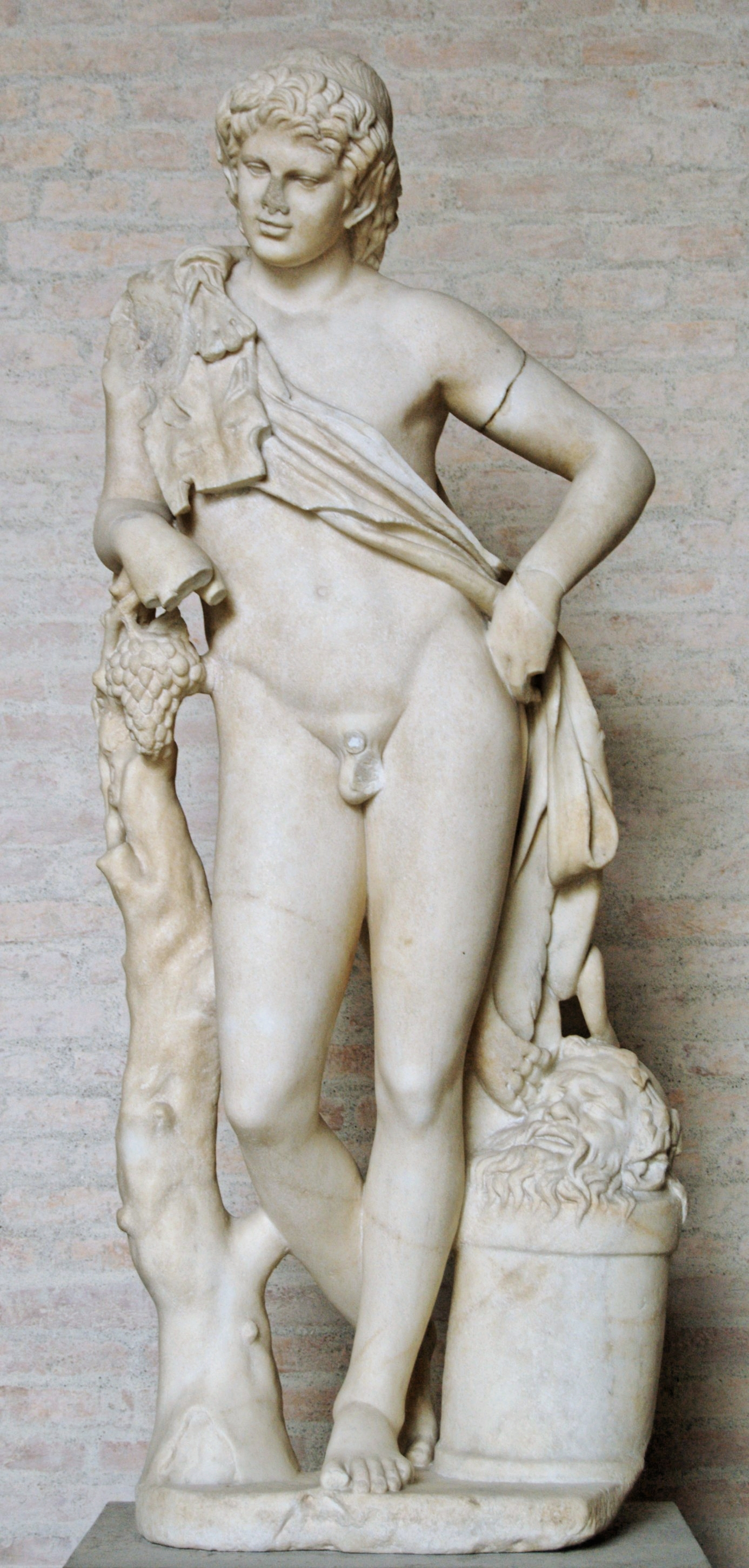 Leaning satyr, copy after a Praxitele's type (ca. 320 BC).